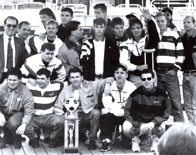 St.louis Ambush 1995 NPSL Champs